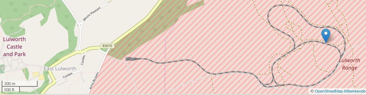 Moving targetry system - Narrow gauge railway of Lulworth Ranges